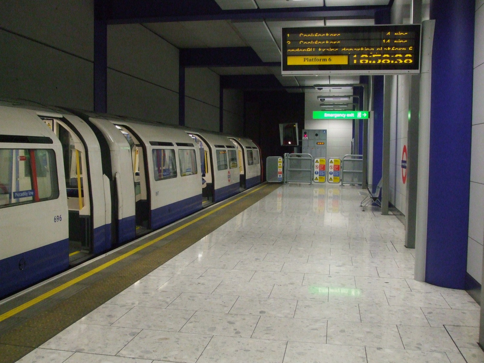 Heathrow Terminal 5 tube station platform 6 looking east, with a Piccadilly line train of 1973 stock awaiting departure towards Central London